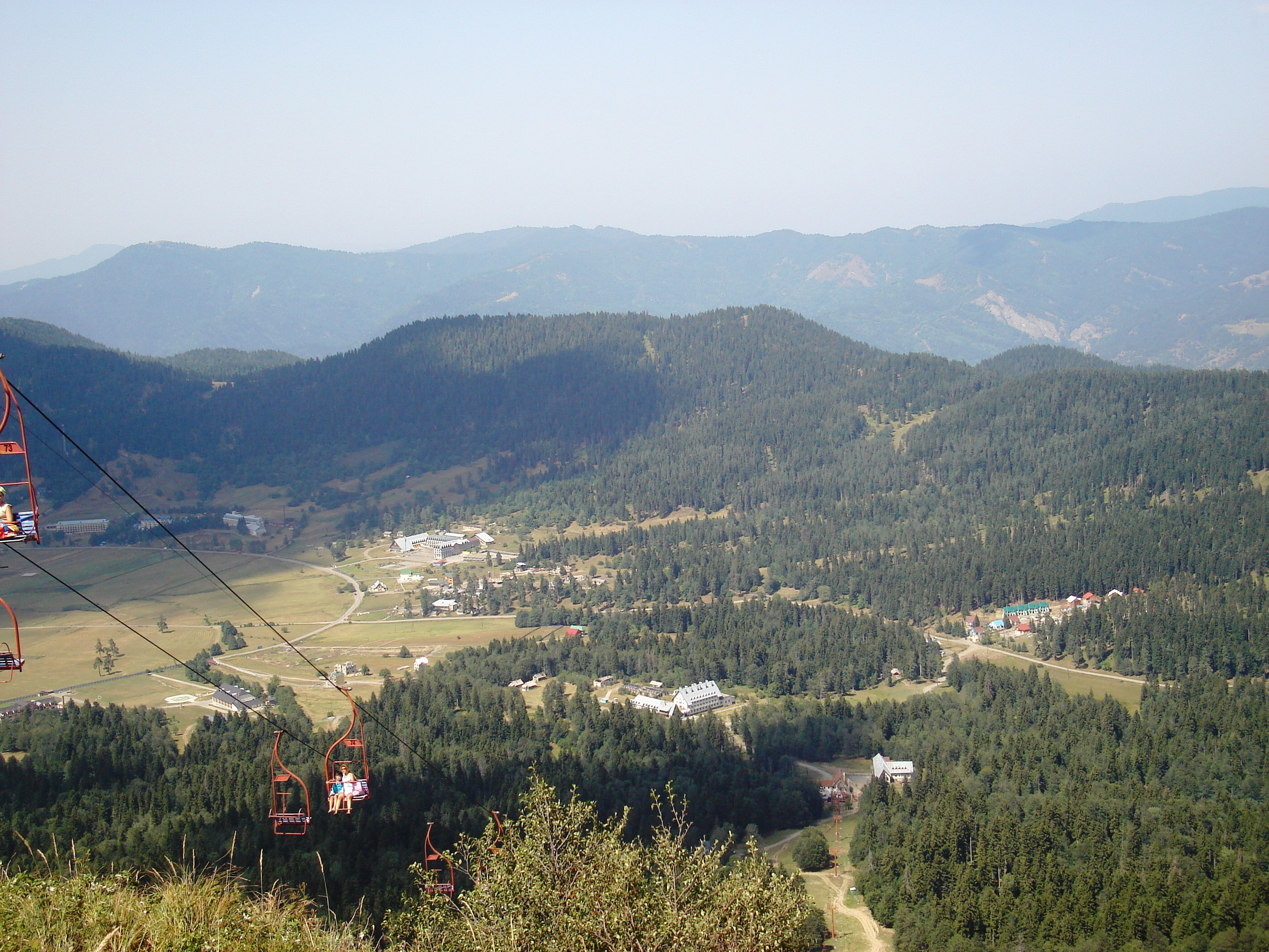 Bakuriani as seen from Mount Kokhta